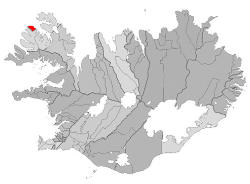 Based on Municipalities of Iceland.png.